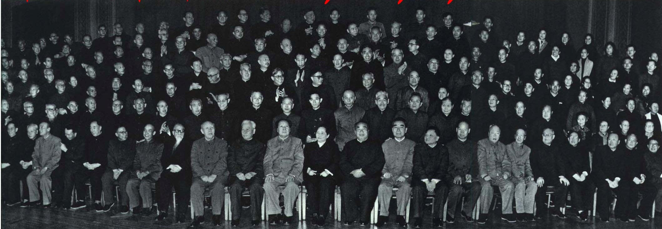 1965-02 1964.12 全国政协第四届1次会议